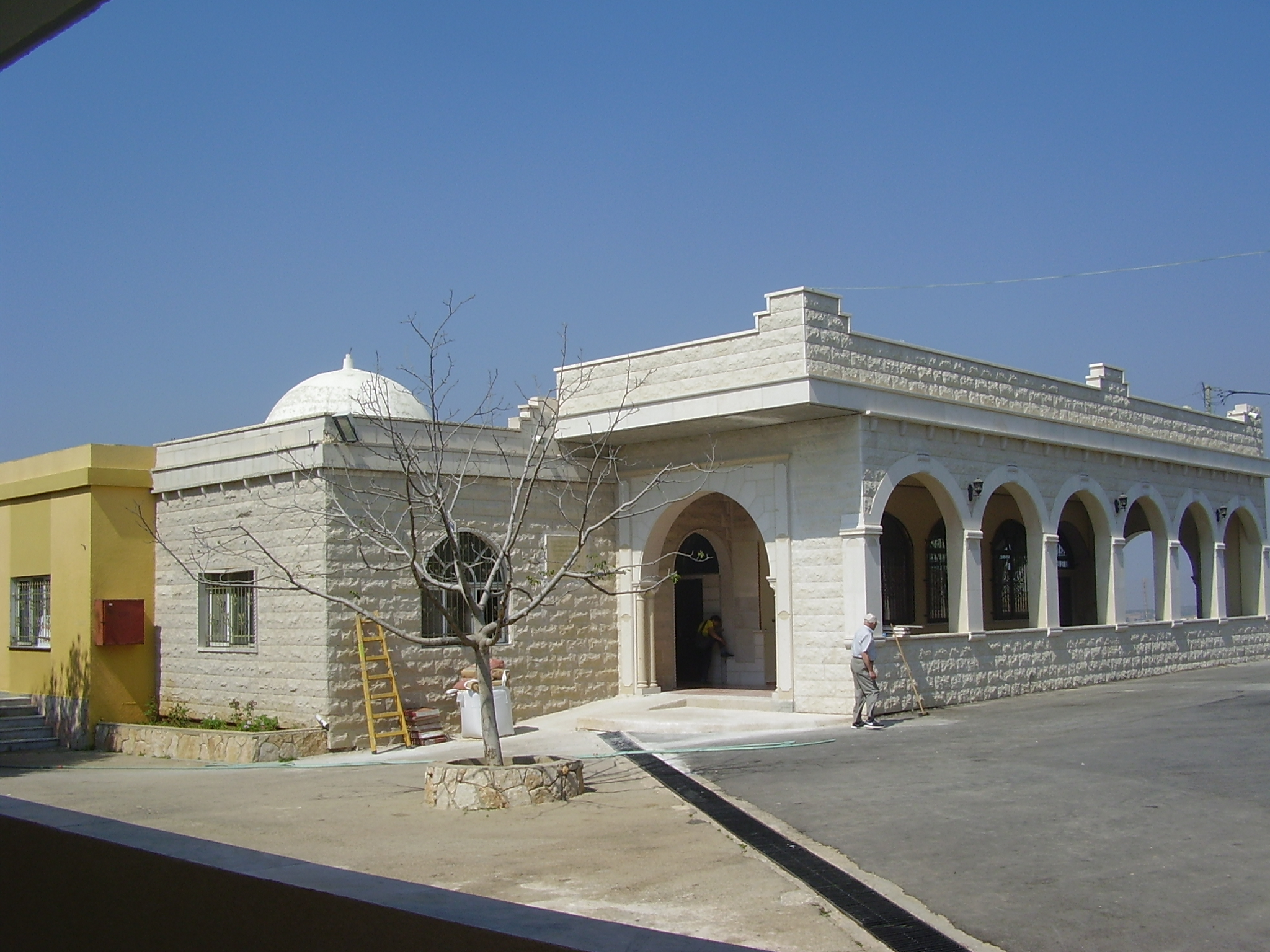 Shrine of Baha' ad-Din, probably dedicated to the founding Druze leader of this name (a.k.a. Al-Muqtana Baha'uddin), in Beit Jann, Israel מקאם בהא אלדין בבית ג'אן